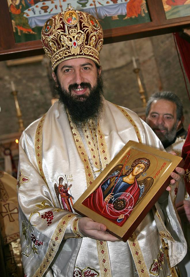 Pimen of Europe